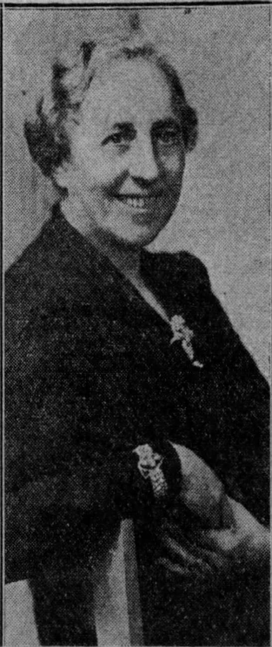 Photo of Ida Silverman from a 1938 copy of The Evening News, Harrisburg, Pennsylvania.